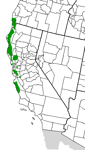 Distribution of Sequoia sempervirens